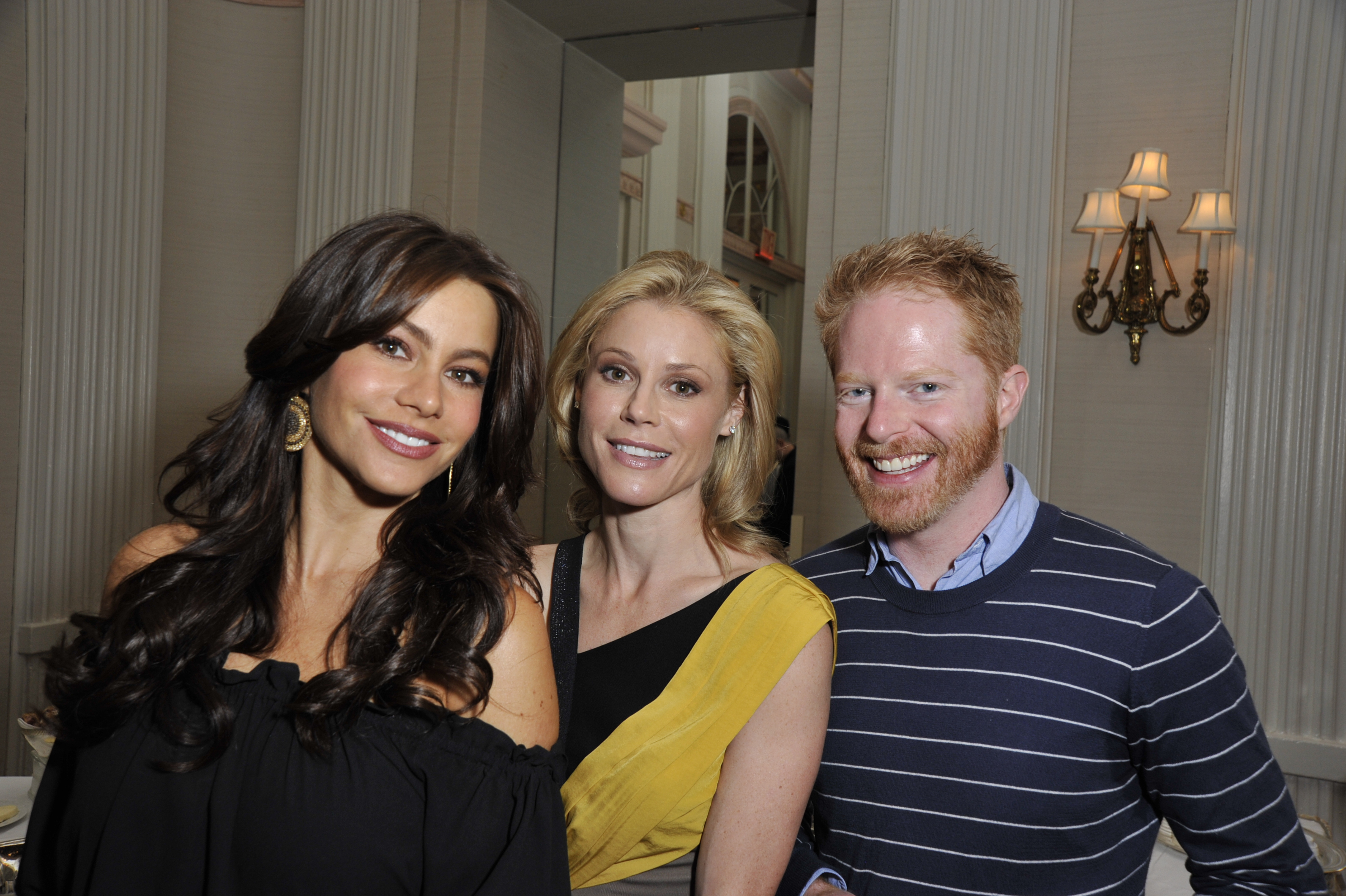 Sofía Vergara, Julie Bowen and Jesse Tyler Ferguson 69th Annual Peabody Awards Luncheon Waldorf=Astoria Hotel New York, NY USA May 17, 2010